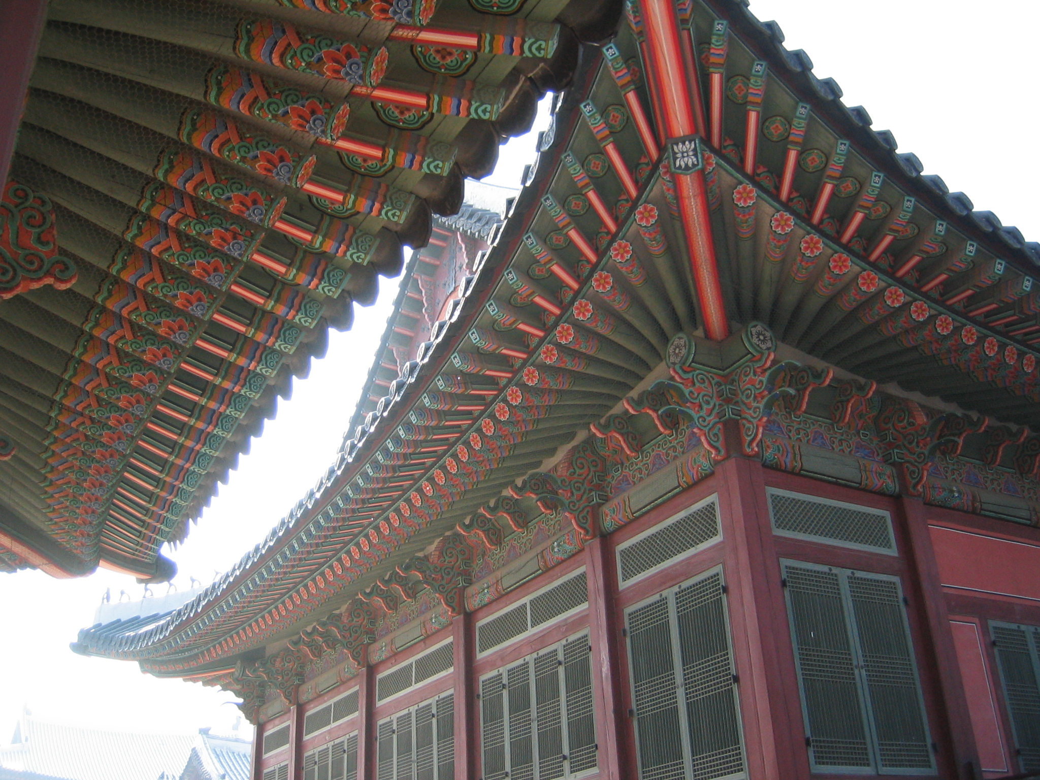 Korean palace buildings